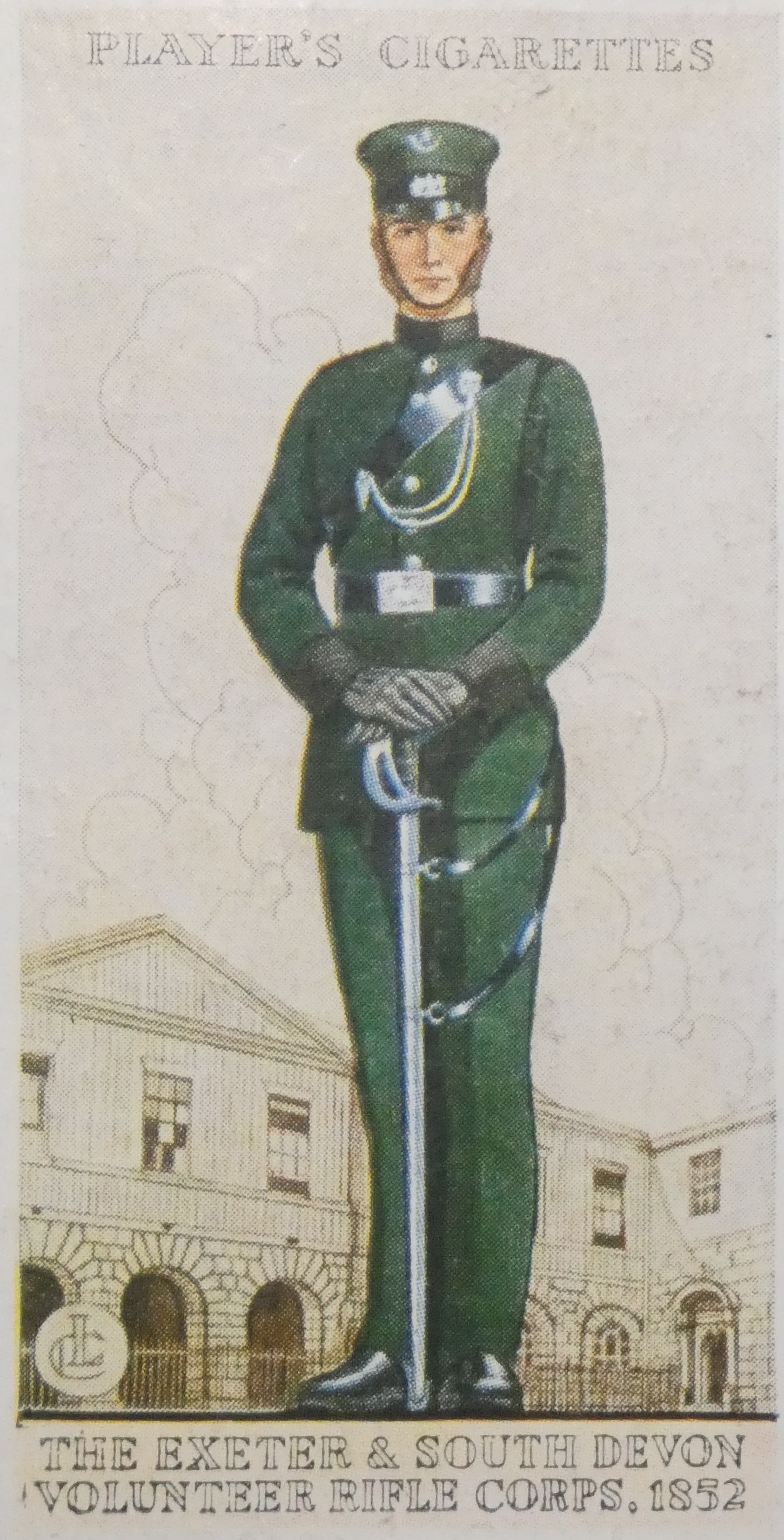 The Exeter and South Devon Volunteers, raised in 1852, was the premier unit of the Volunteer Force